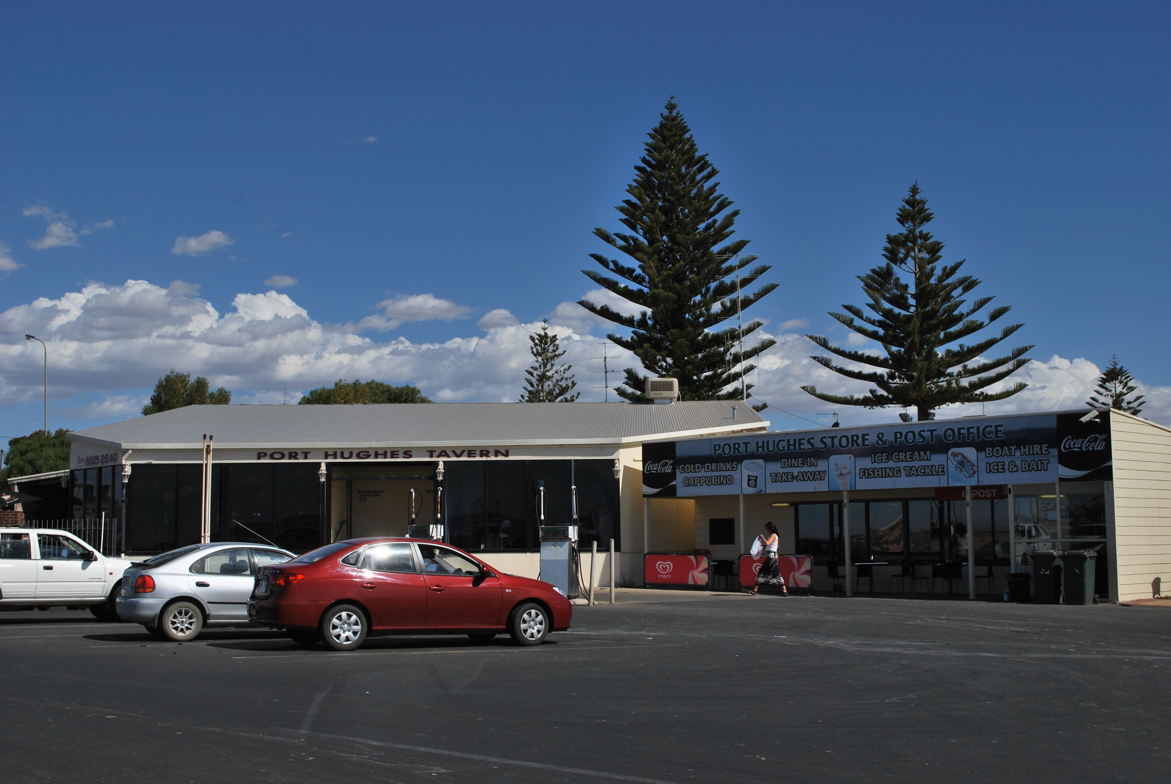 General store and post office, alongside the Port Hughes tavern at Port Hughes, Victoria